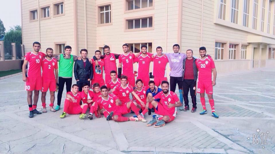 araz 20183